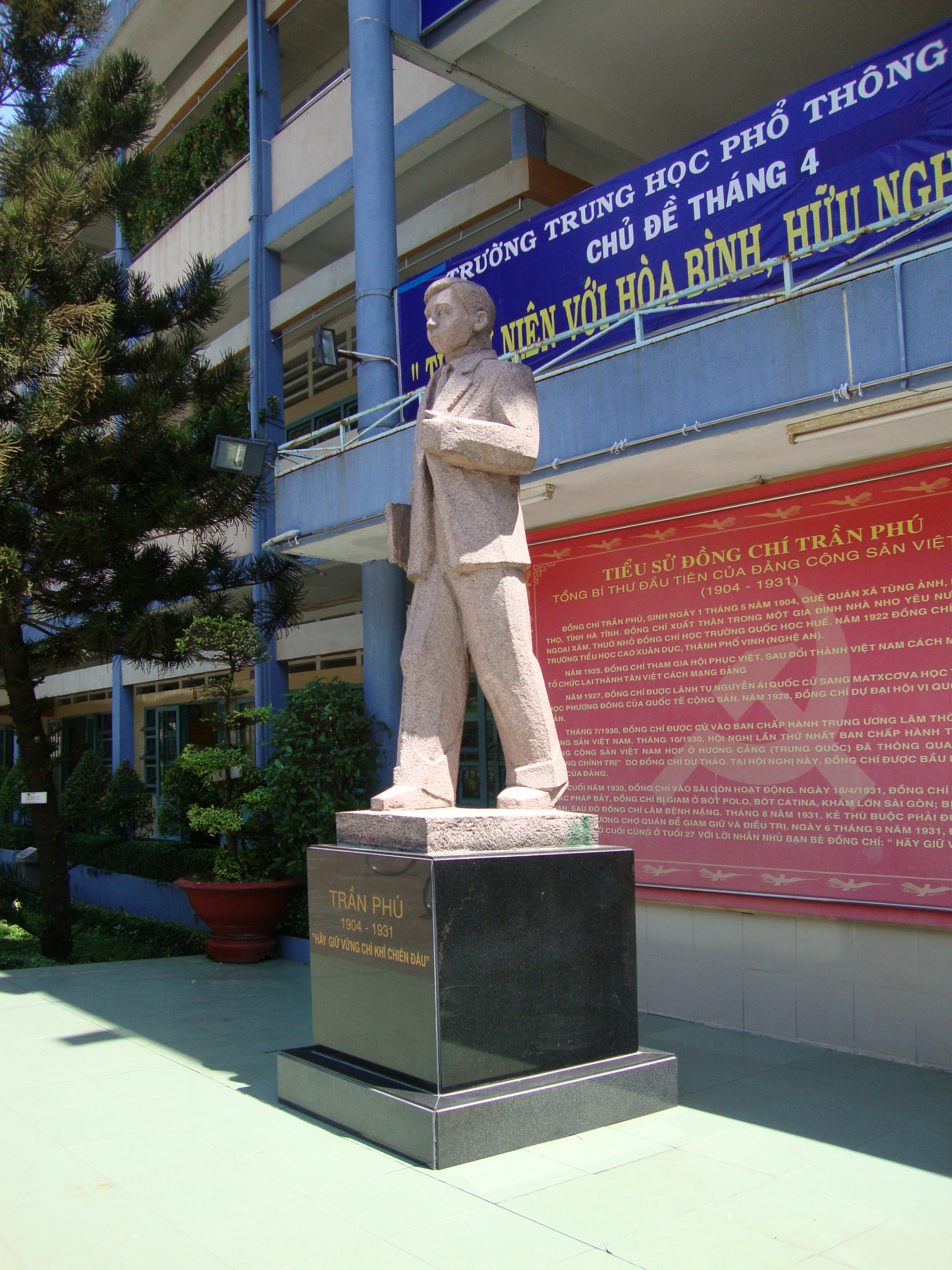 Tượng đồng chí Trần Phú, THPT Trần Phú, Thành phố Hồ Chí Minh